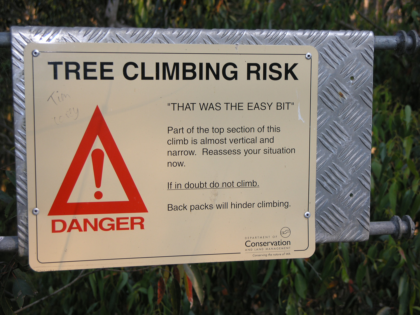 Pic of a sign near the top of the Diamond Tree. A huge Karri tree used as a fire lookout, near Manjimup in Western Australia.